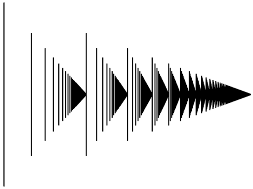 A graphical “matchstick” representation of the ordinal ω²